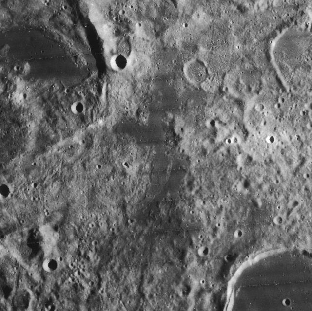 Summer Lake (Lacus Aestatis)